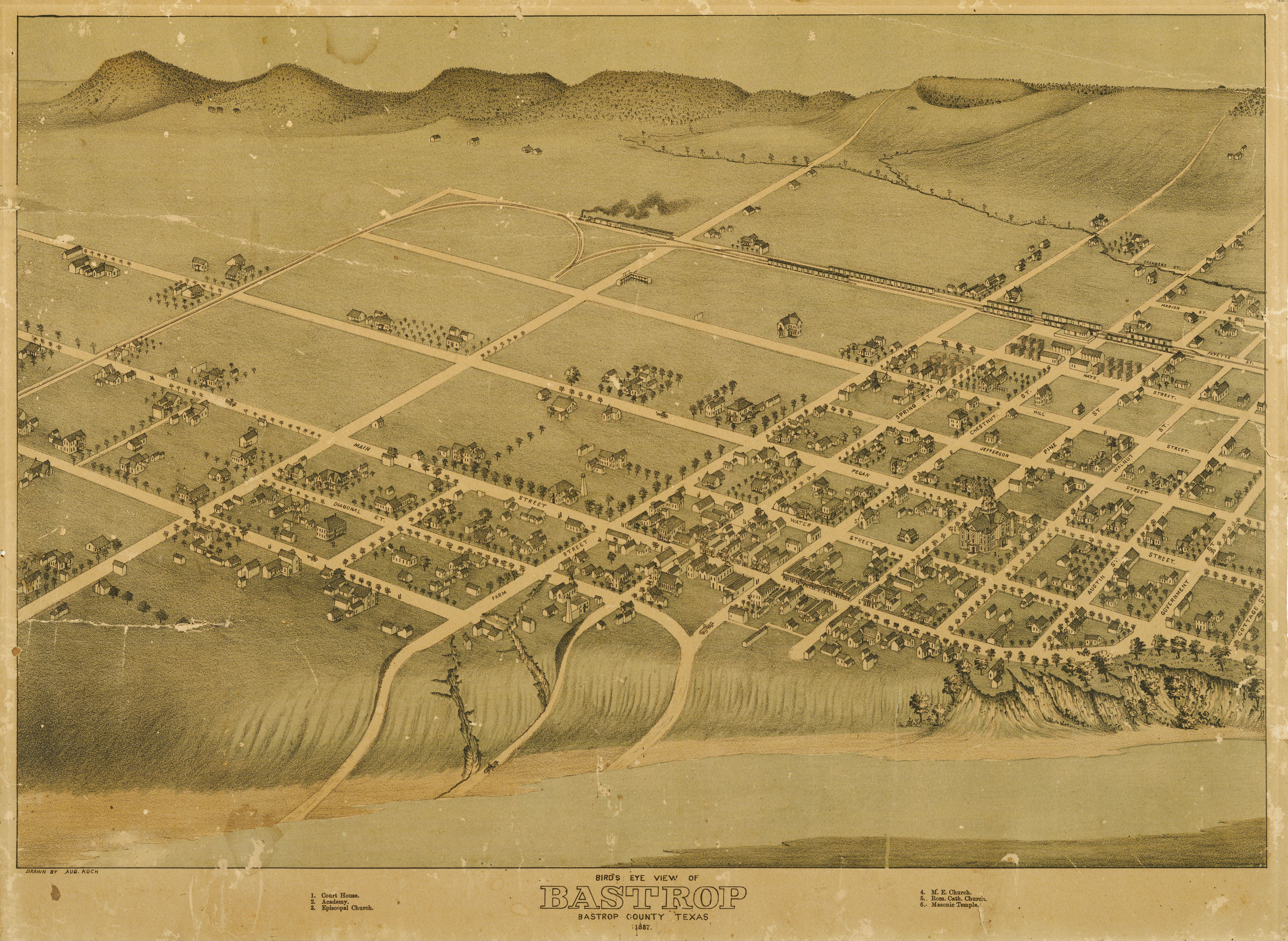 Bastrop, Texas in 1887. Birdrsquos Eye View of Bastrop Bastrop County Texas 1887, 1887. Lithograph, 16.6 x 22.9 in. Lithographer unknown. Bastrop County Historical Society.